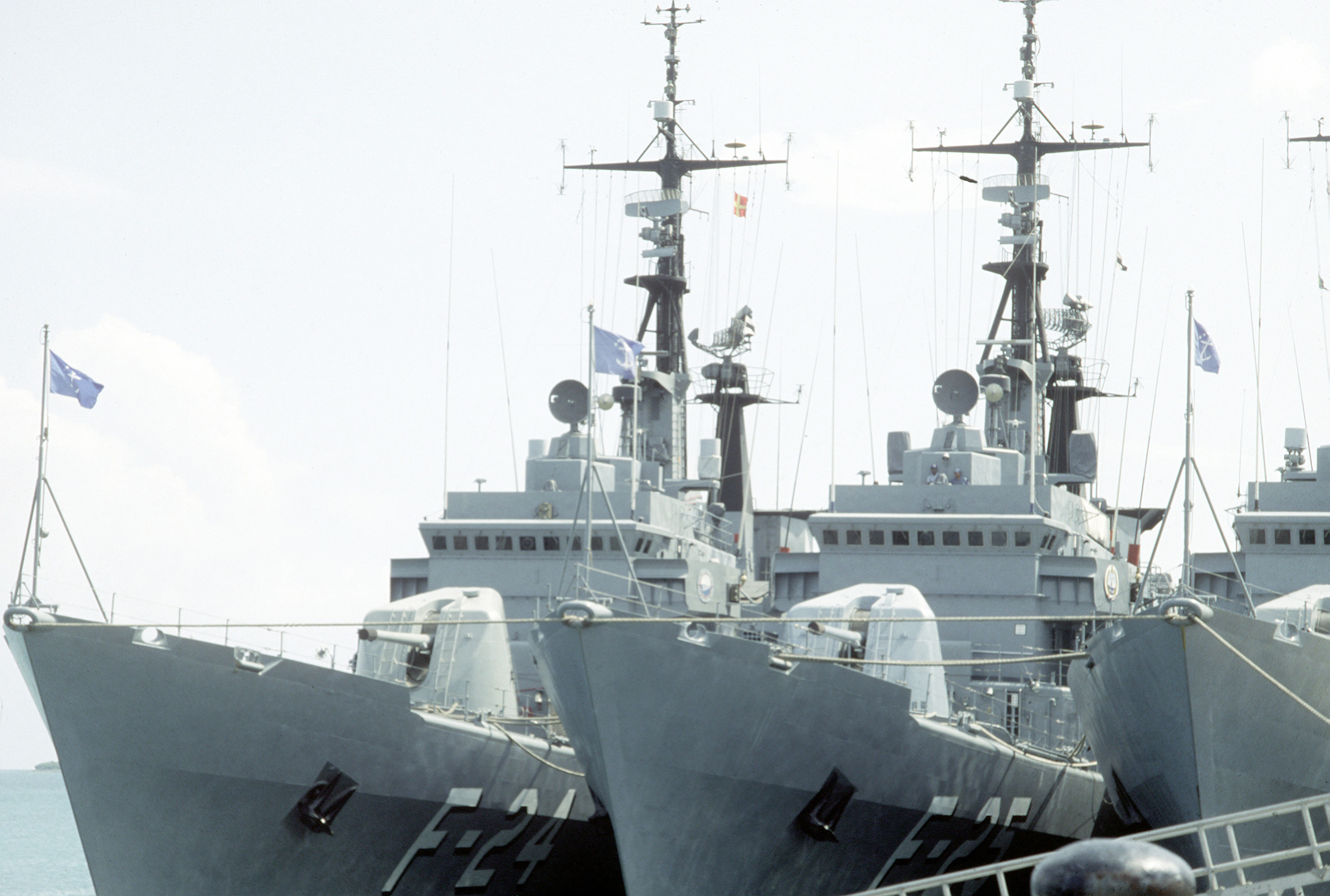 The Venezuelan LUPO class frigates GENERAL SOUBLETTE (F-24) and GENERAL SALOM (F-25) docked alongside in port. Location: NAS, ROOSEVELT ROADS, PUERTO RICO (PR) UNITED STATES OF AMERICA (USA) Camera Operator: JOC GLENNA HOUSTON Date Shot: 1 Jan 1986